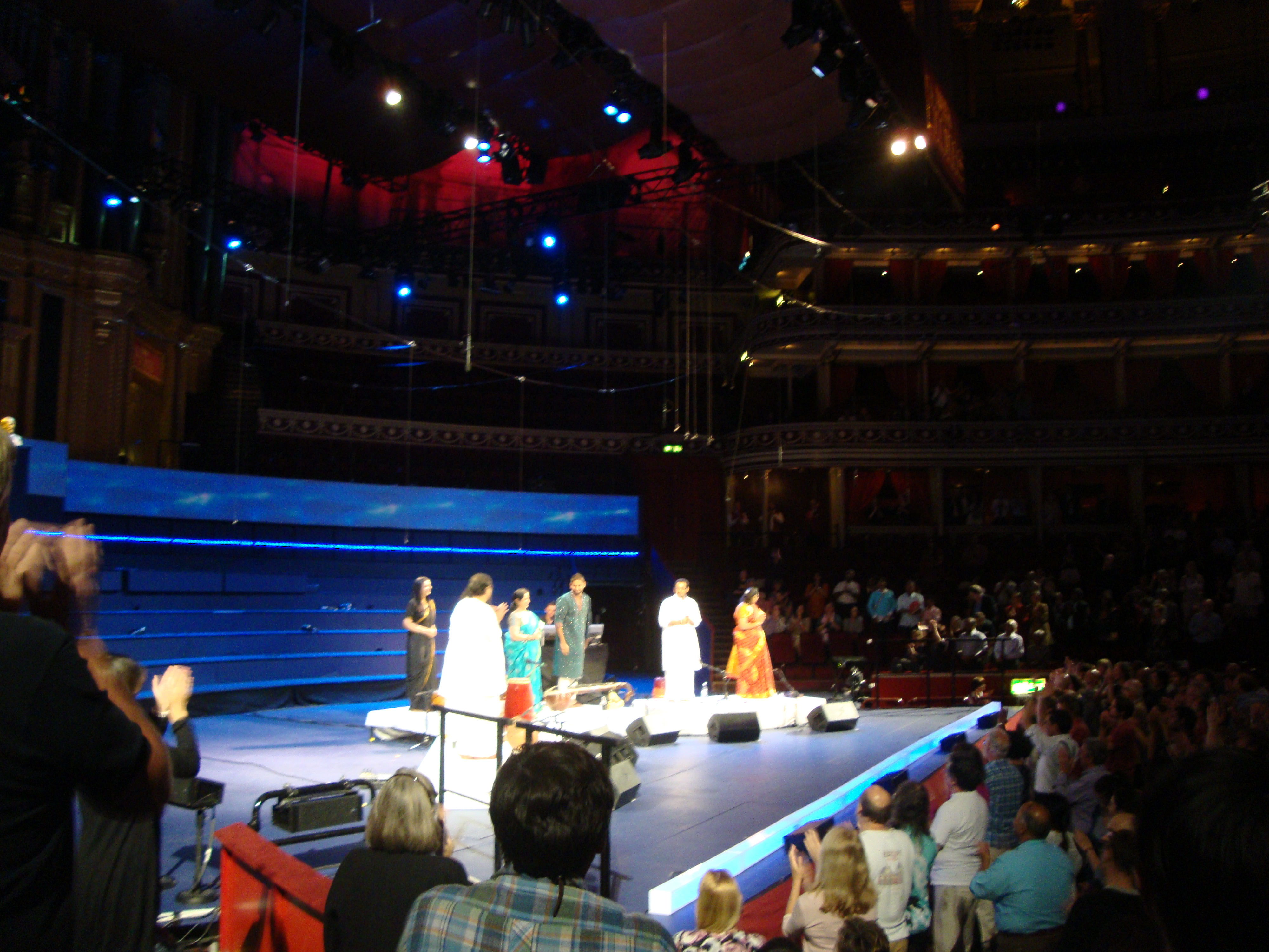 Jyotsna Srikanth at the BBC Proms concert, 2011. At Royal Albert Hall